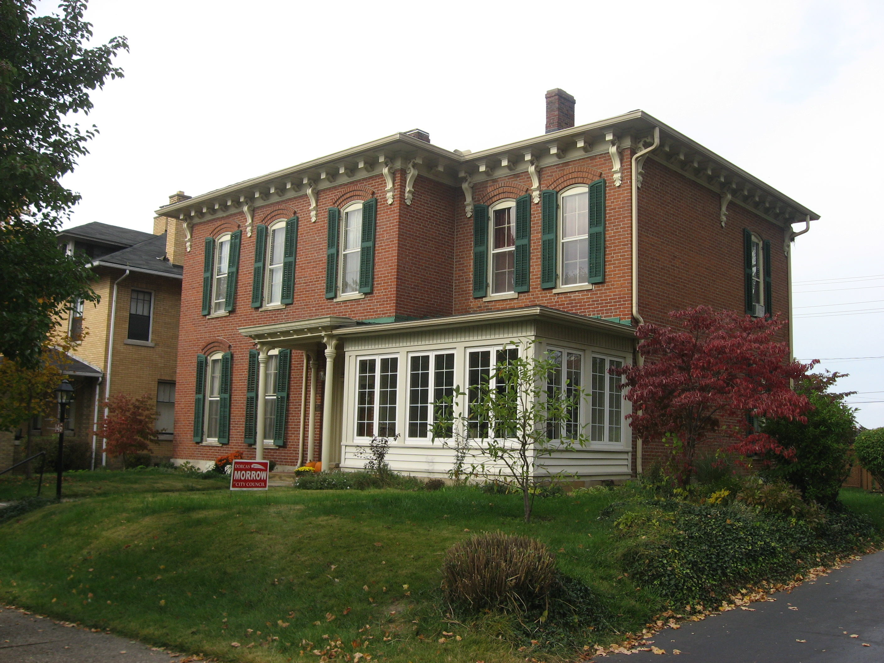 Front and eastern side of the Ansel T. Walling House, located at 146 W. Union Street in Circleville, Ohio, United States. Built in 1869, the house is listed on the National Register of Historic Places.